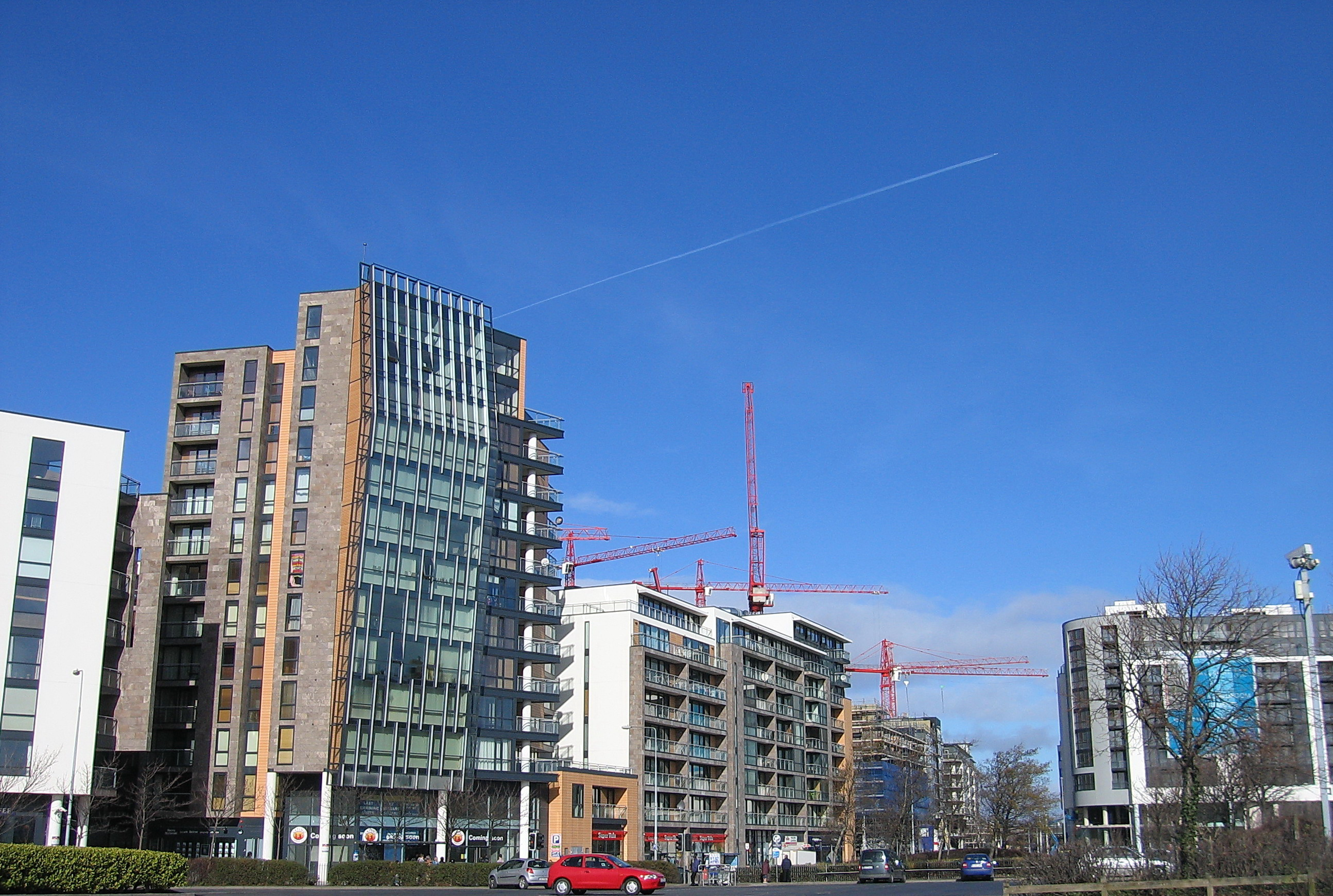 Tallaght Central